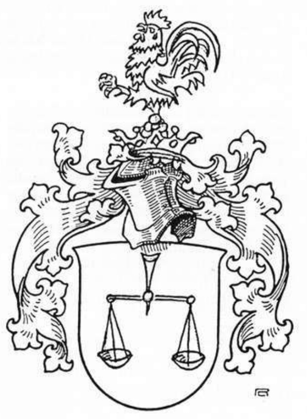 photo, crest